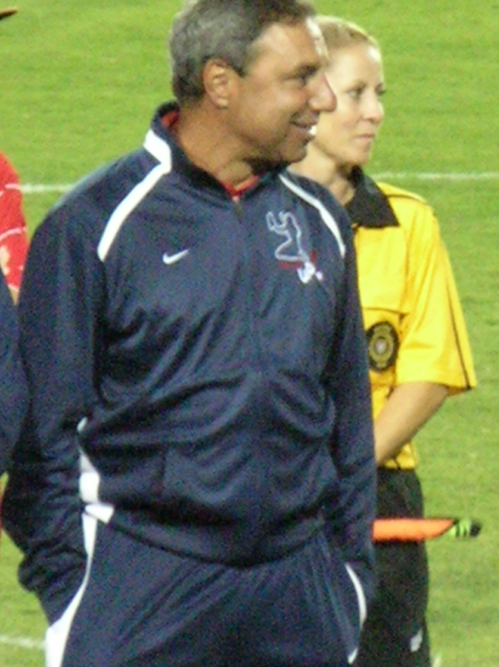 Soccer coach Tony DiCicco at Brandi Chastain's Testimonial Game, a celebrity exhibition soccer game at Buck Shaw Stadium in Santa Clara, California, that honored Chastain's soccer career, celebrated her retirement, and the launching of her ReachuP! Foundation.